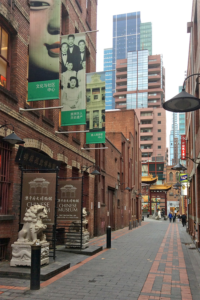 Main entrance to the Chinese Museum in Cohen Place, Chinatown, Melbourne, Victoria, Australia.